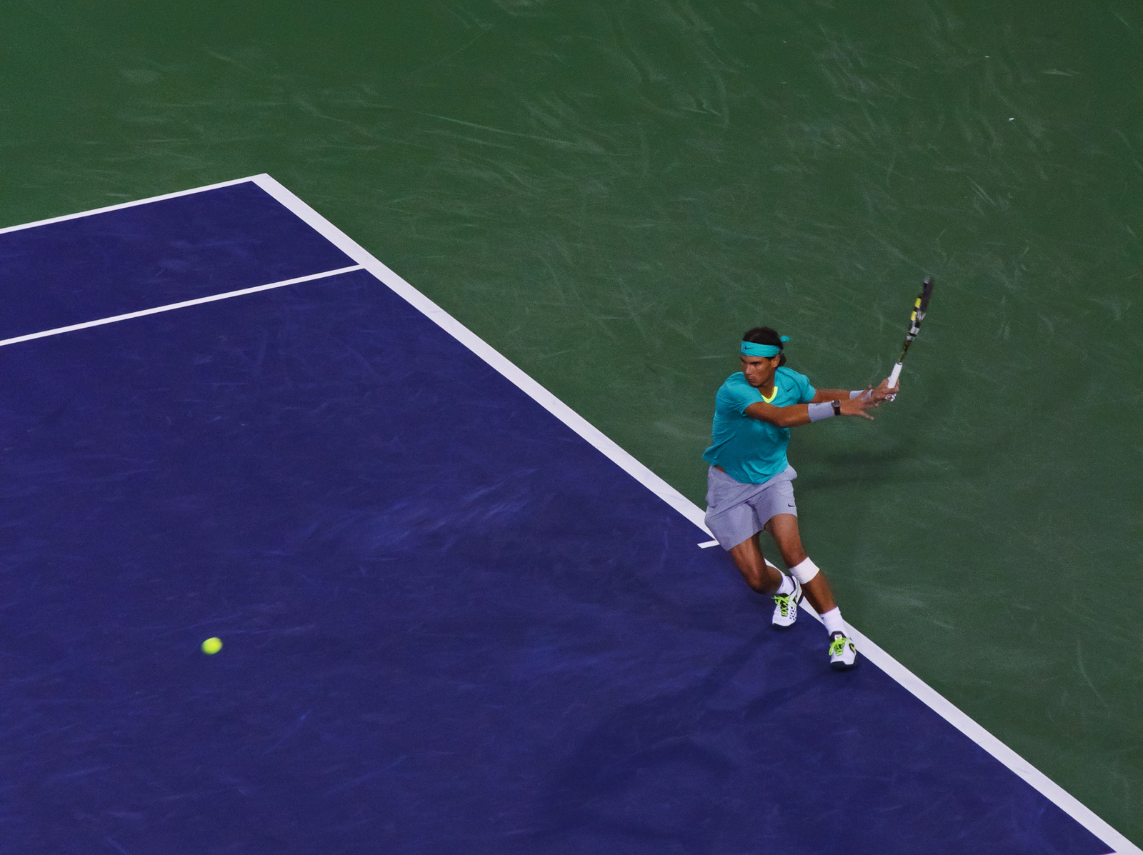 2013 BNP Paribas Open - Rafael Nadal vs Ryan Harrison (2nd round)